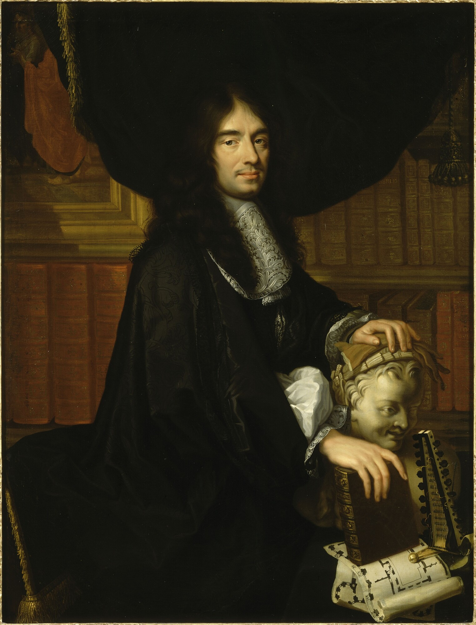 Portrait of Charles Perrault (1628-1703), a French author. Lallemand presented this portrait on 13 May 1672, along with his Portrait of Gédéon Berbier du Mets, in order to gain admittance to the Academy. The names of the sitters were communicated to him on 25 April 1671, so the painting dates to this period. Lallemand worked from a 1665 painting of Charles Perrault by Charles Le Brun (engraved by Étienne Baudet in 1675).